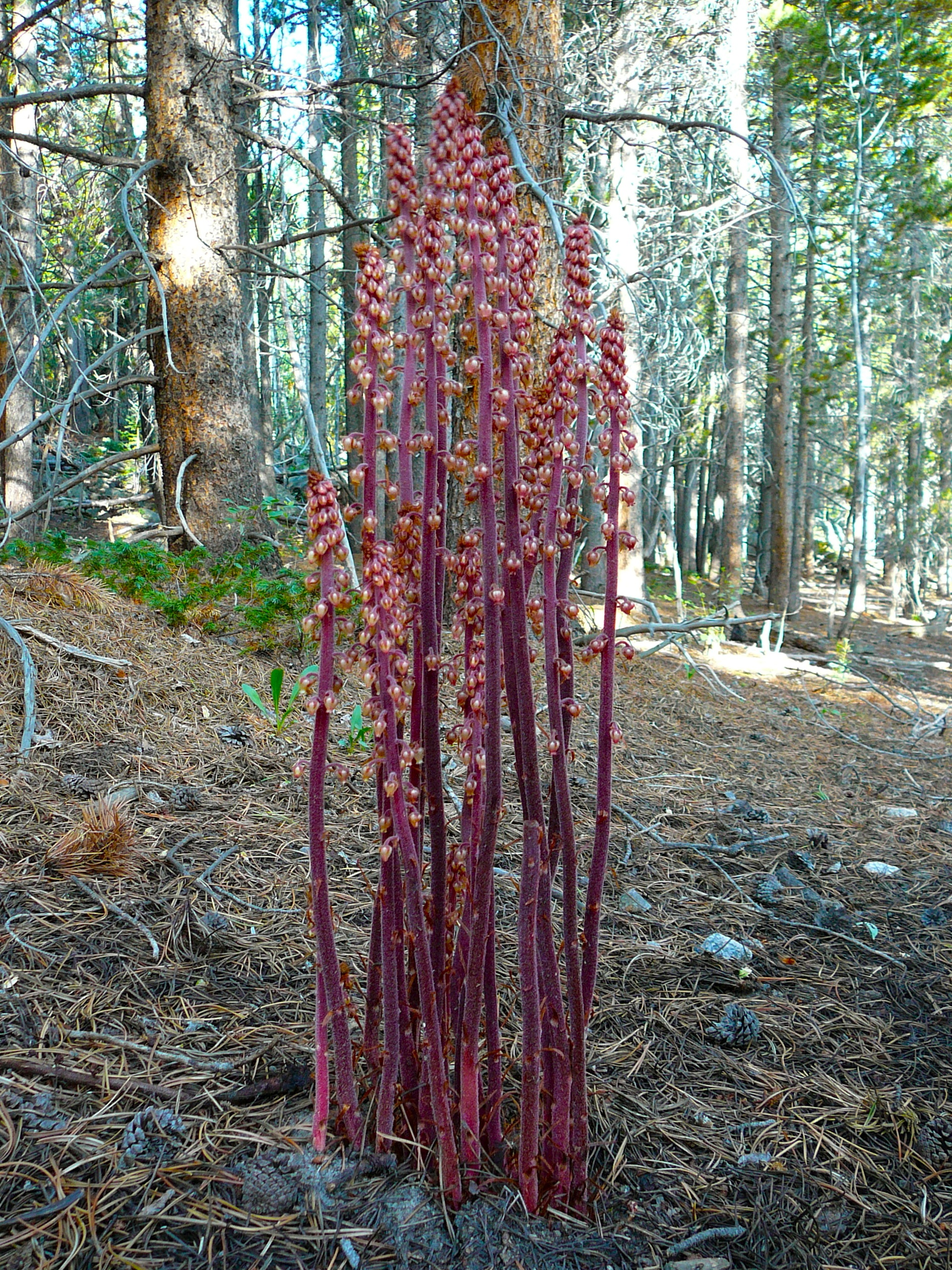 Pterospora andromedea — at Sprague Lake, Rocky Mountain National Park, Colorado.